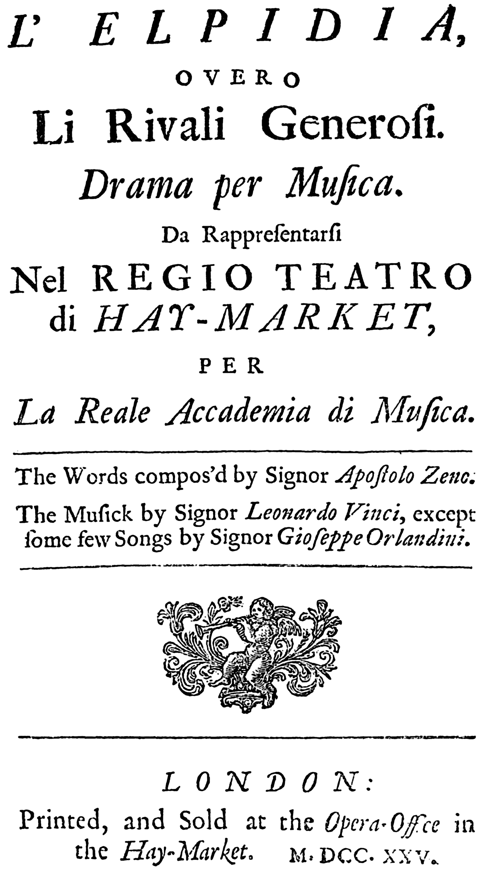 Georg Friedrich Händel - L’Elpidia, ovvero Li rivali generosi - title page of the libretto - London 1725